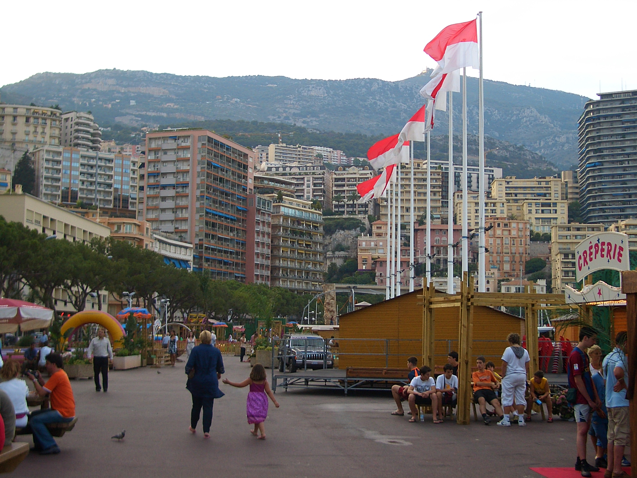 A view of Monaco